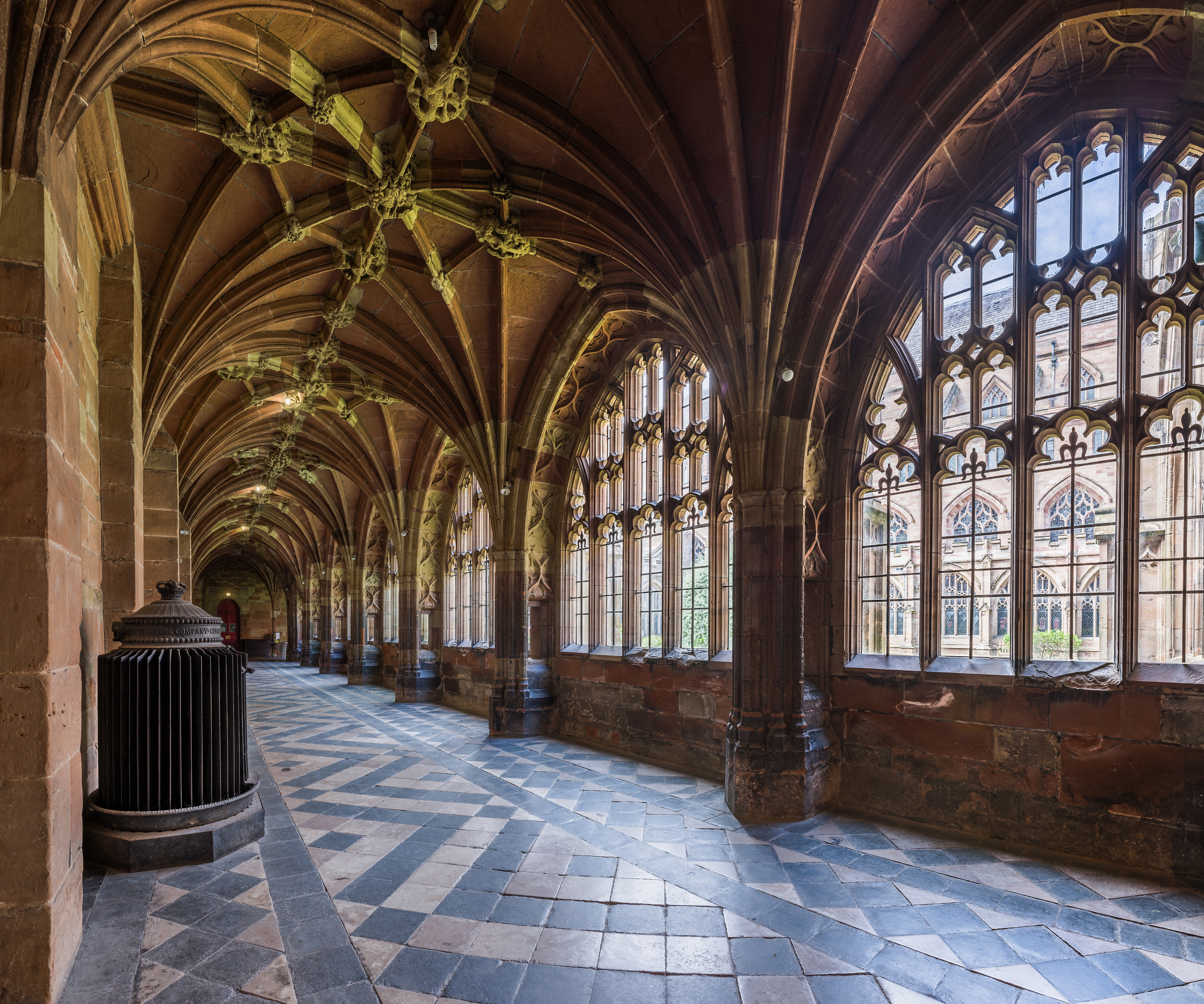 The cloisters of Worcester Cathedral, Worcestershire, England.